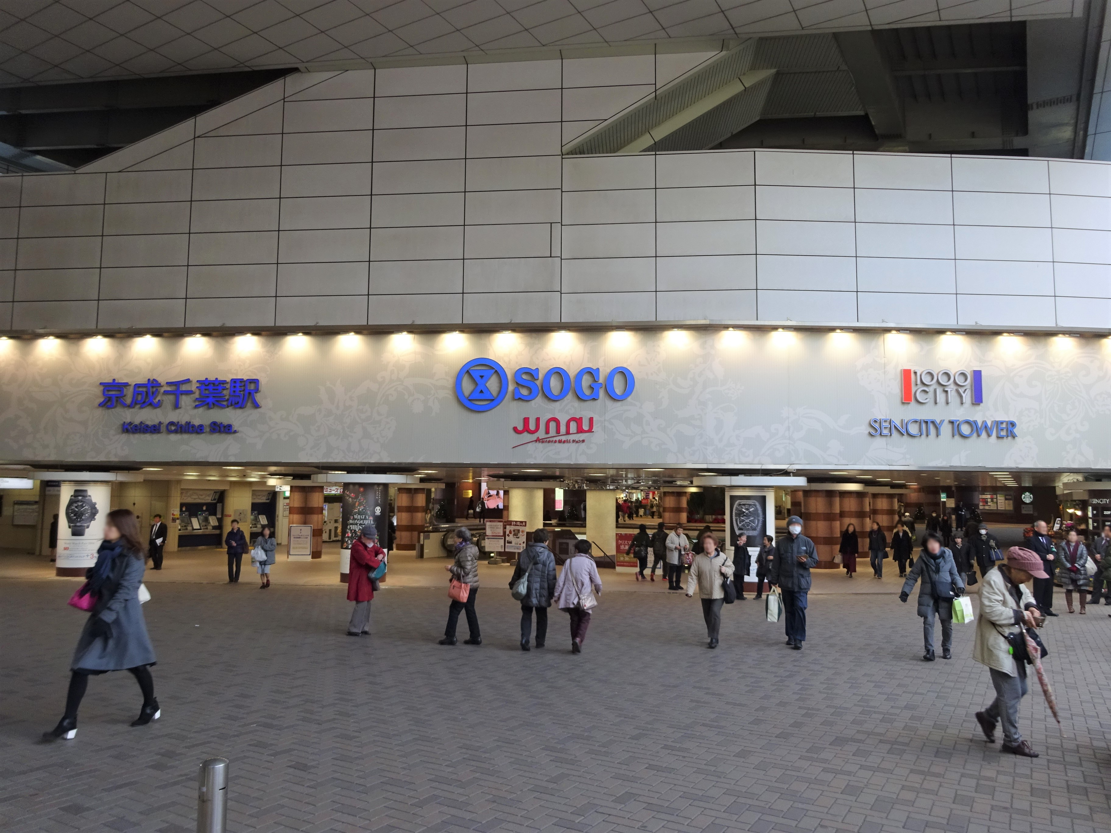 West entrance of Keisei Chiba Station